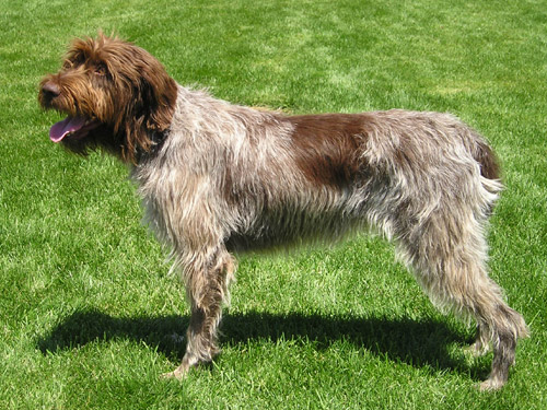 American Wirehaired Pointing Griffon Ch. Stonepoints Belovite ("Touche"), JH, CGC, CD (titles: Junior Hunter, Canine Good Citizen, Companion Dog) An active working dog who hunts pheasants and assists her owner in teaching obedience classes. Taken by Elf, Sunnyvale, CA May 2, 2004